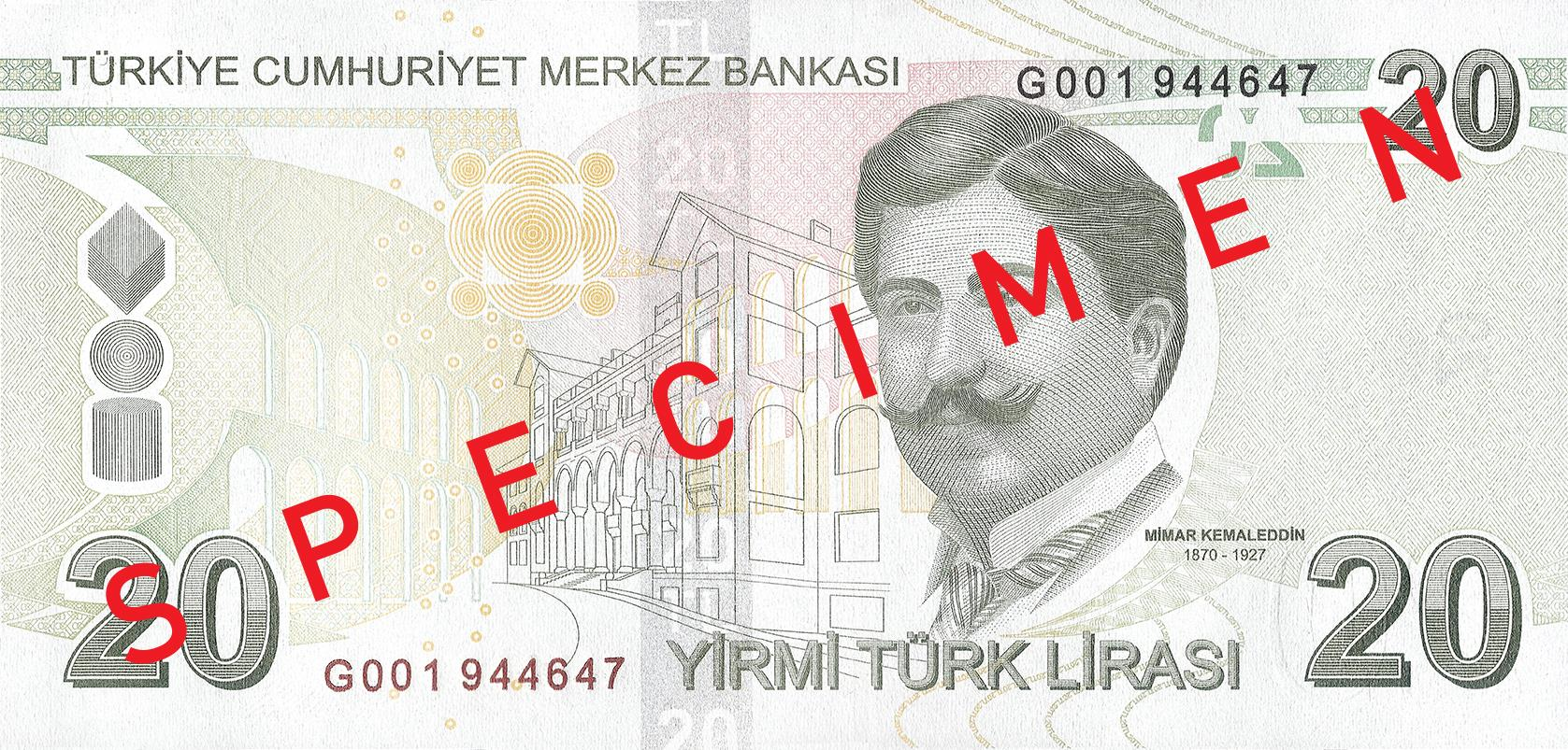 Reverse of 20 Turkish LiraTürkçe: 20 Türk Lirası'nın arka yüzü